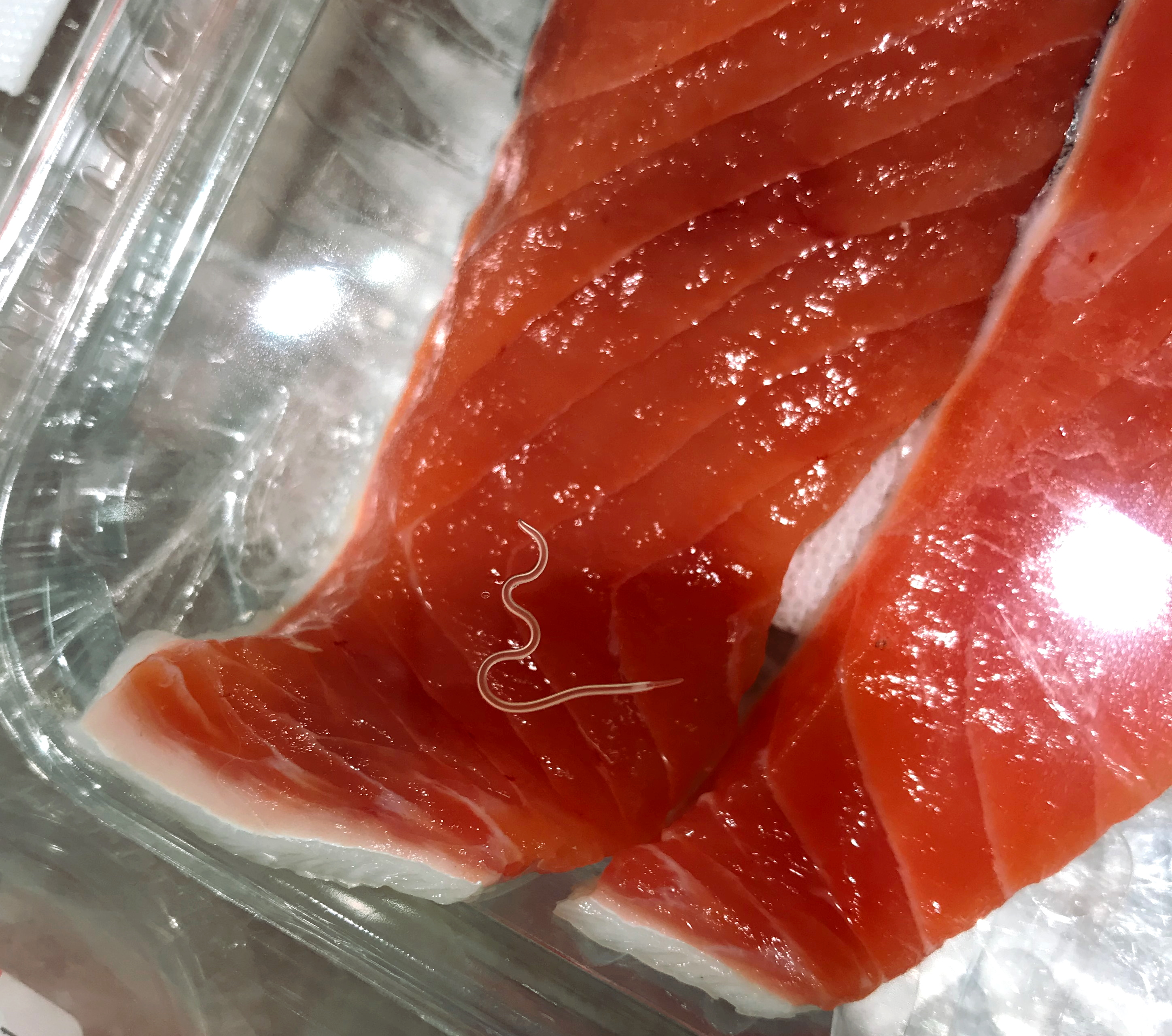 The anisakis which sticks to sold Oncorhynchus keta. it alive an anisakis.